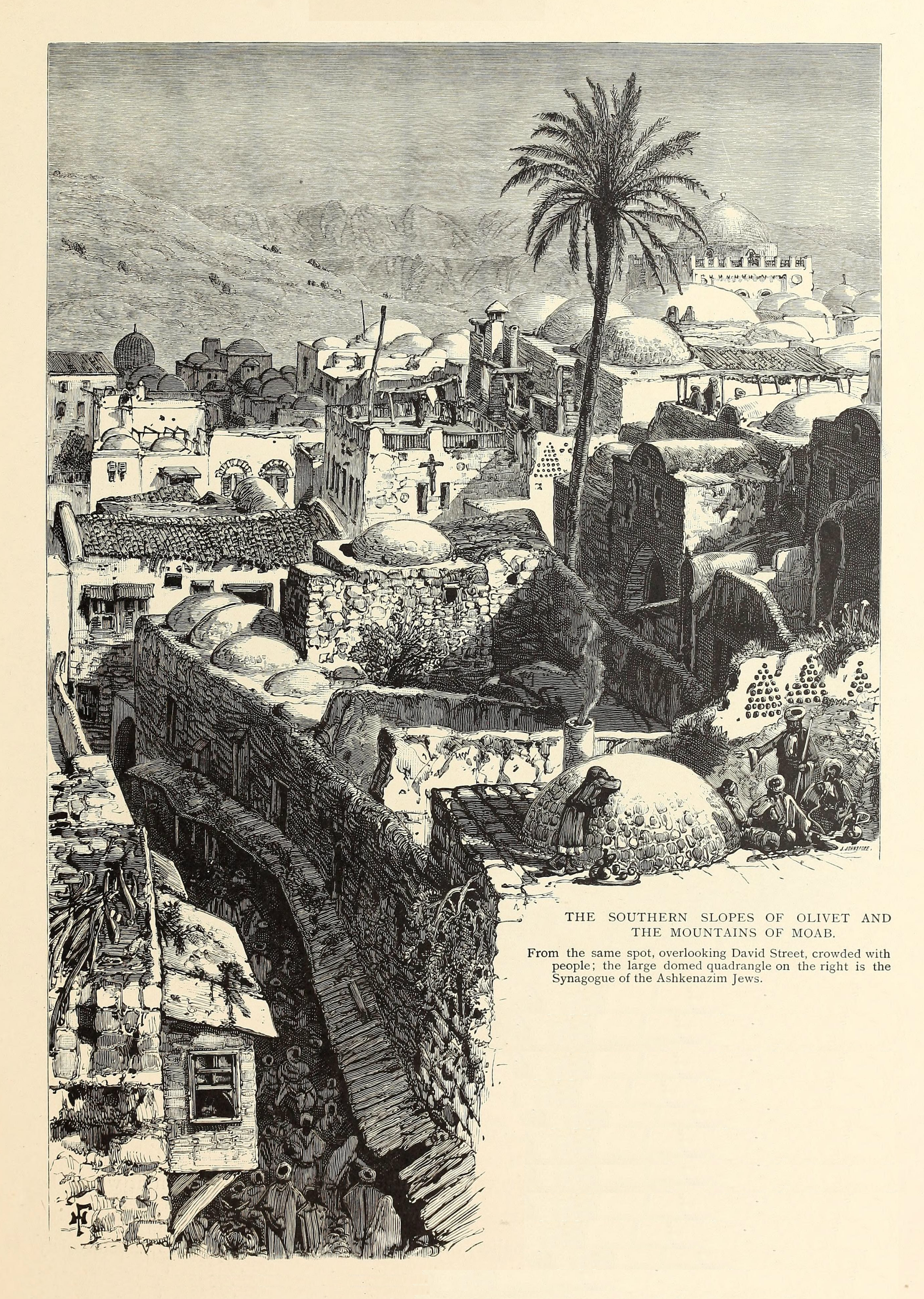 Caption: the southern slopes of olivet and the mountains of moab From the same spot, overlooking David Street, crowded with people; the large domed quadrangle on the right is the Synagogue of the Ashkenazim Jews. The right half of a full-page spread overlooking the city of Jerusalem from the SW corner of the Pool of Hezekiah. Text removed from bottom right.